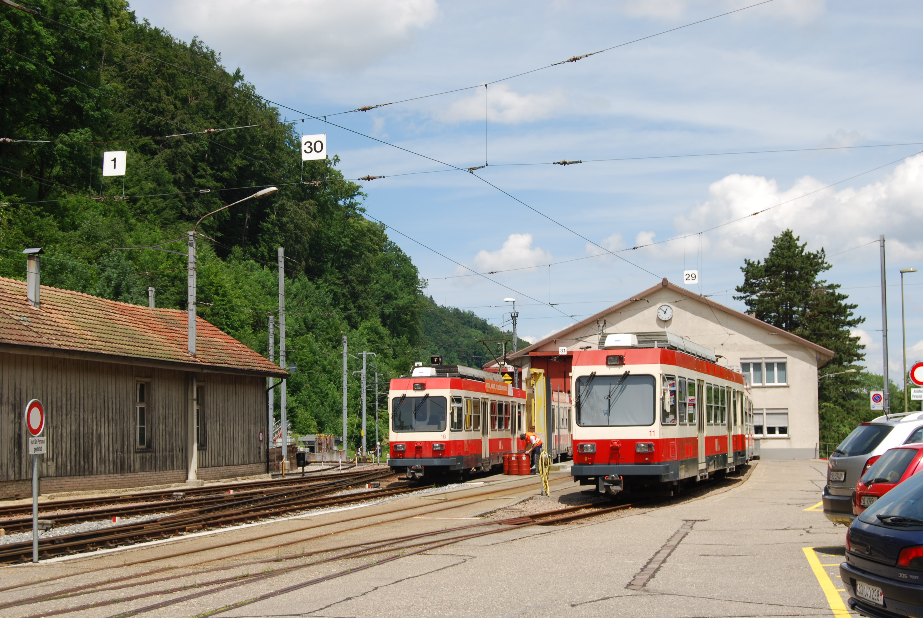 Train station of Waldenburg, canton of Basel-Country, Switzerland